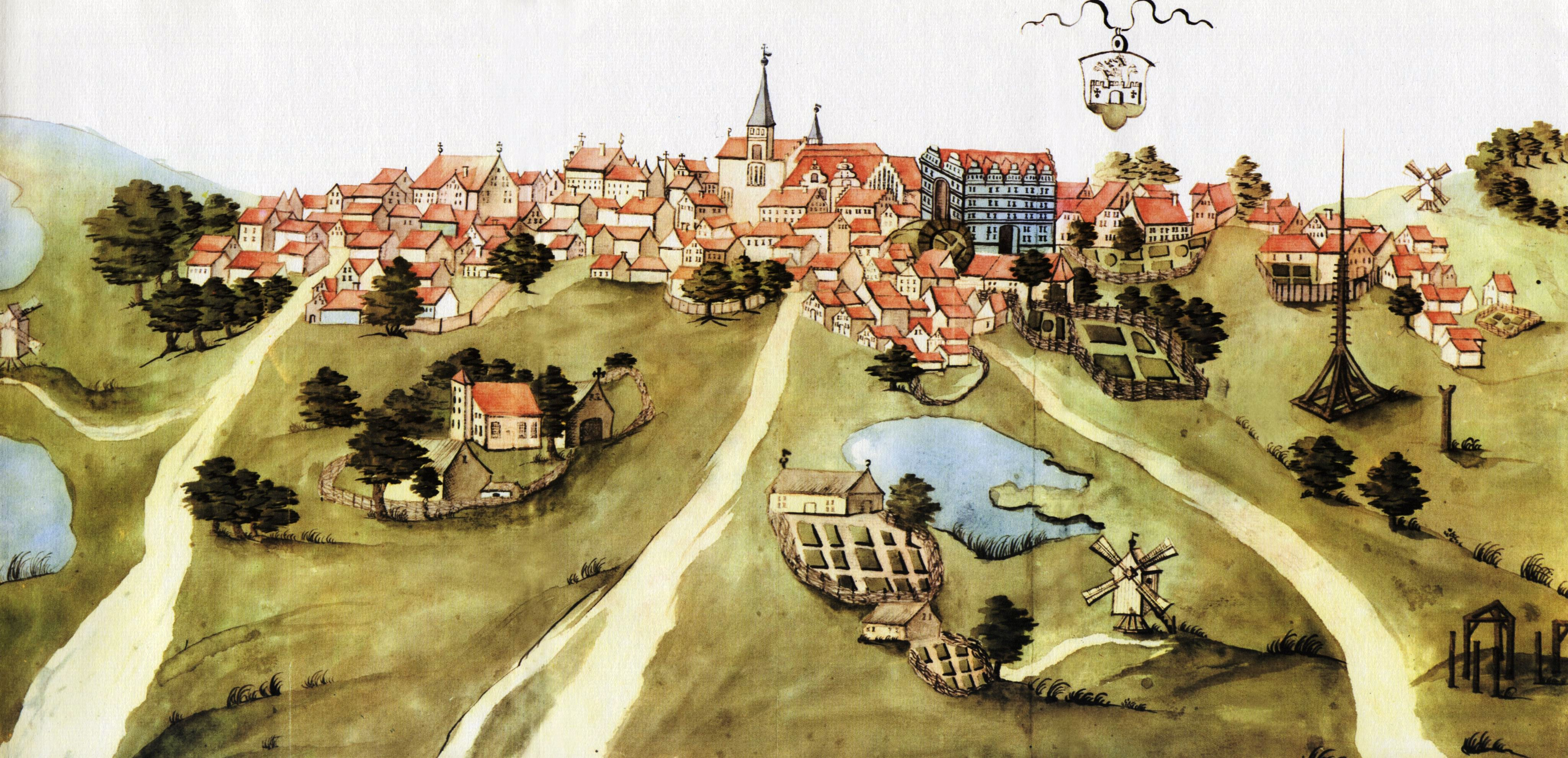 Cityview of Bergen(Rügen) from the "Stralsunder Bilderhandschrift"